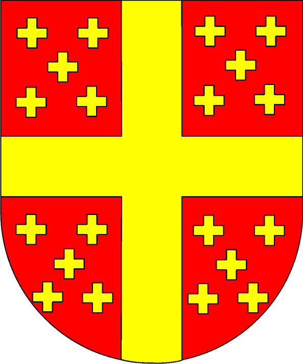 coats of arms of the county of Westerburg